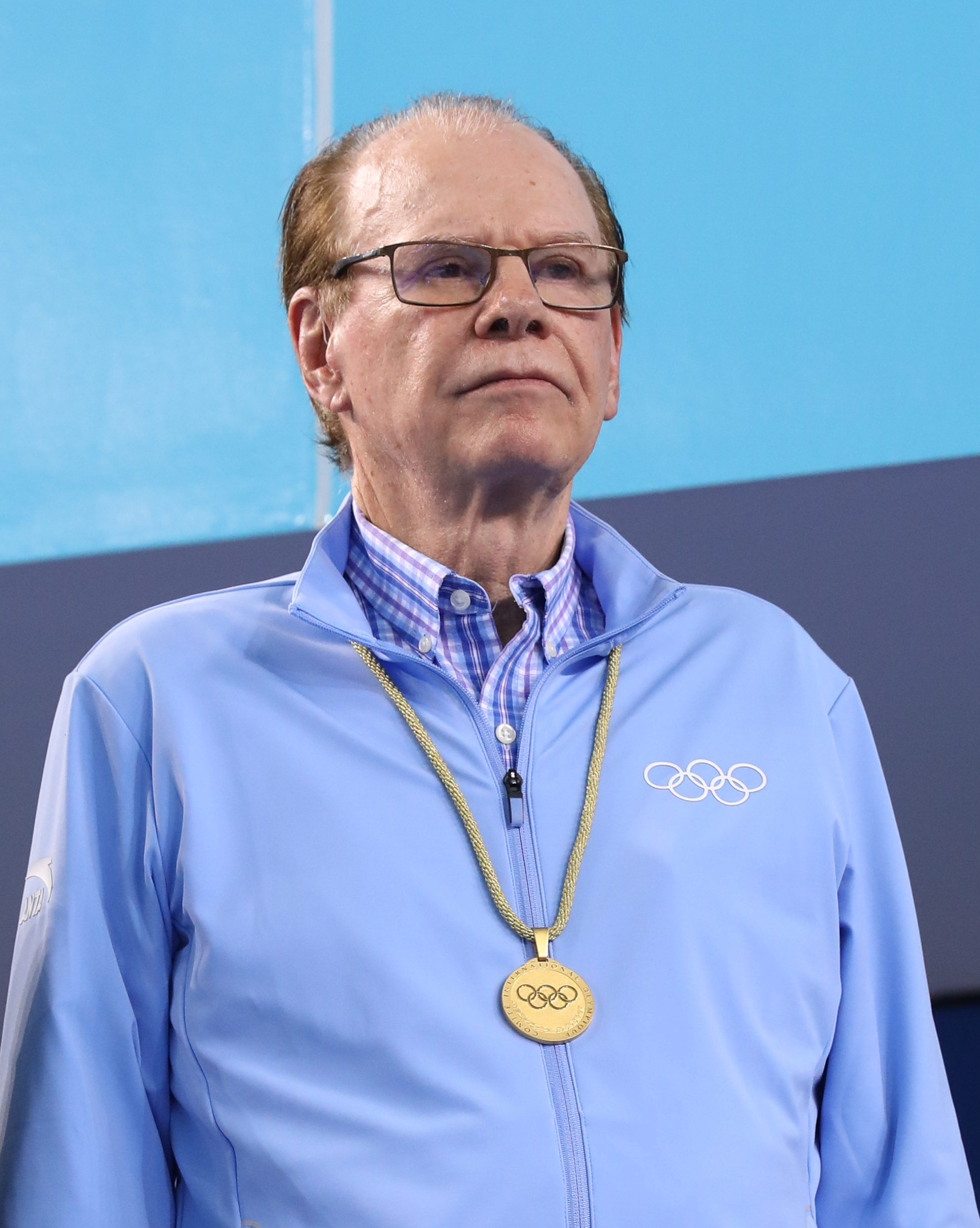 Boys' Diving, 10 m platform, Final: Victory ceremony